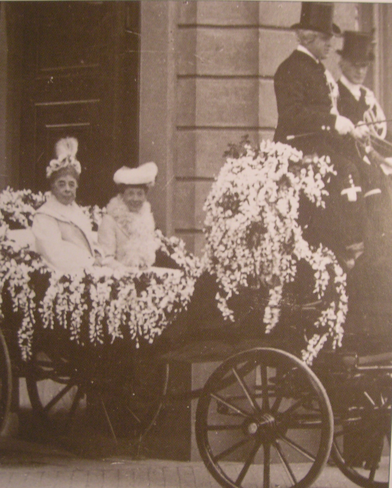 Princess Metternich and her daughter Clementine as they leave her home Palais Metternich-Sándor on their way to the Blumenkorso. This was a charity event organised by her and others that took place in the Prater.